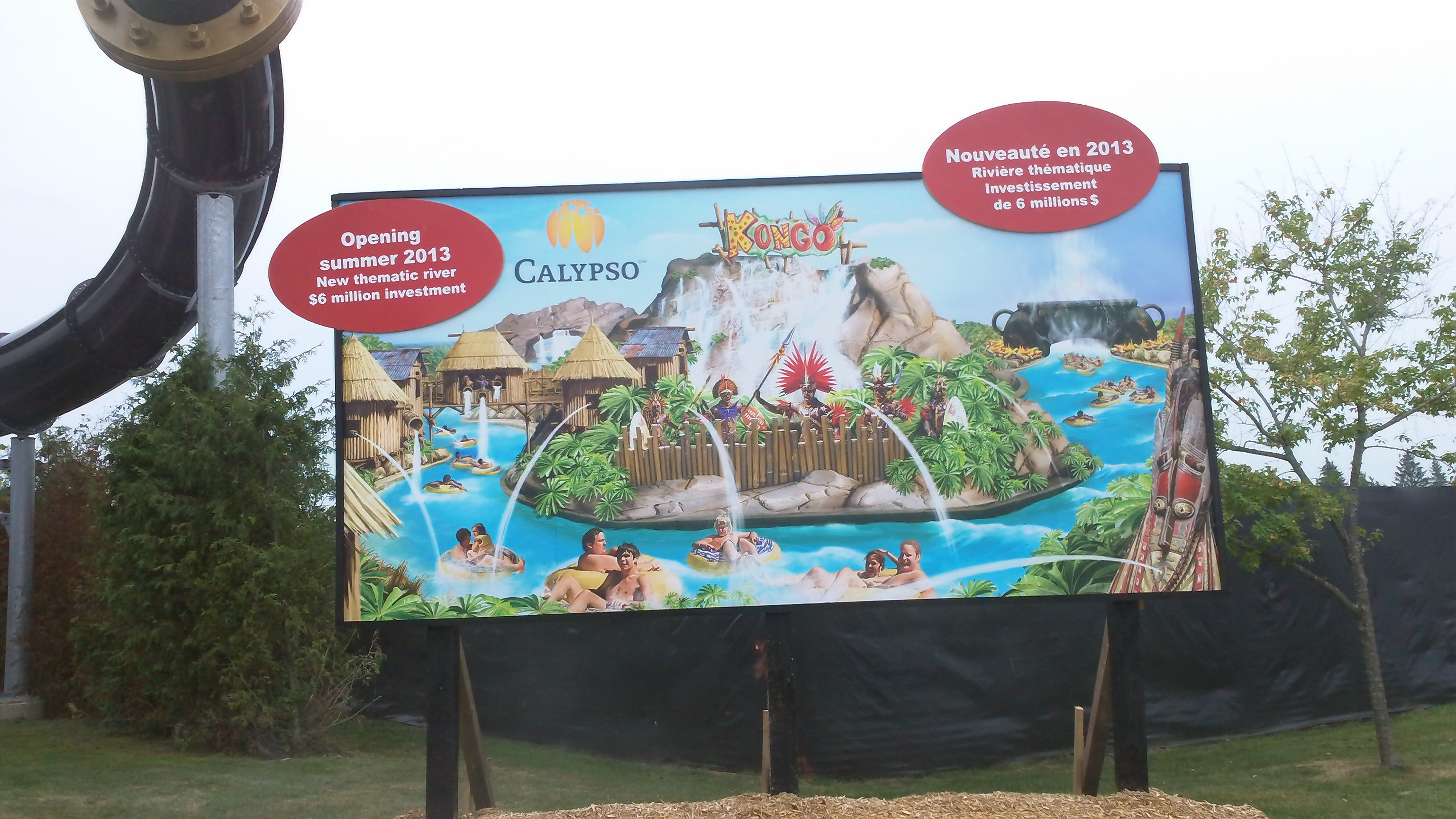 The teaser of the new thematic river "Kongo" at Calypso waterpark for 2013.